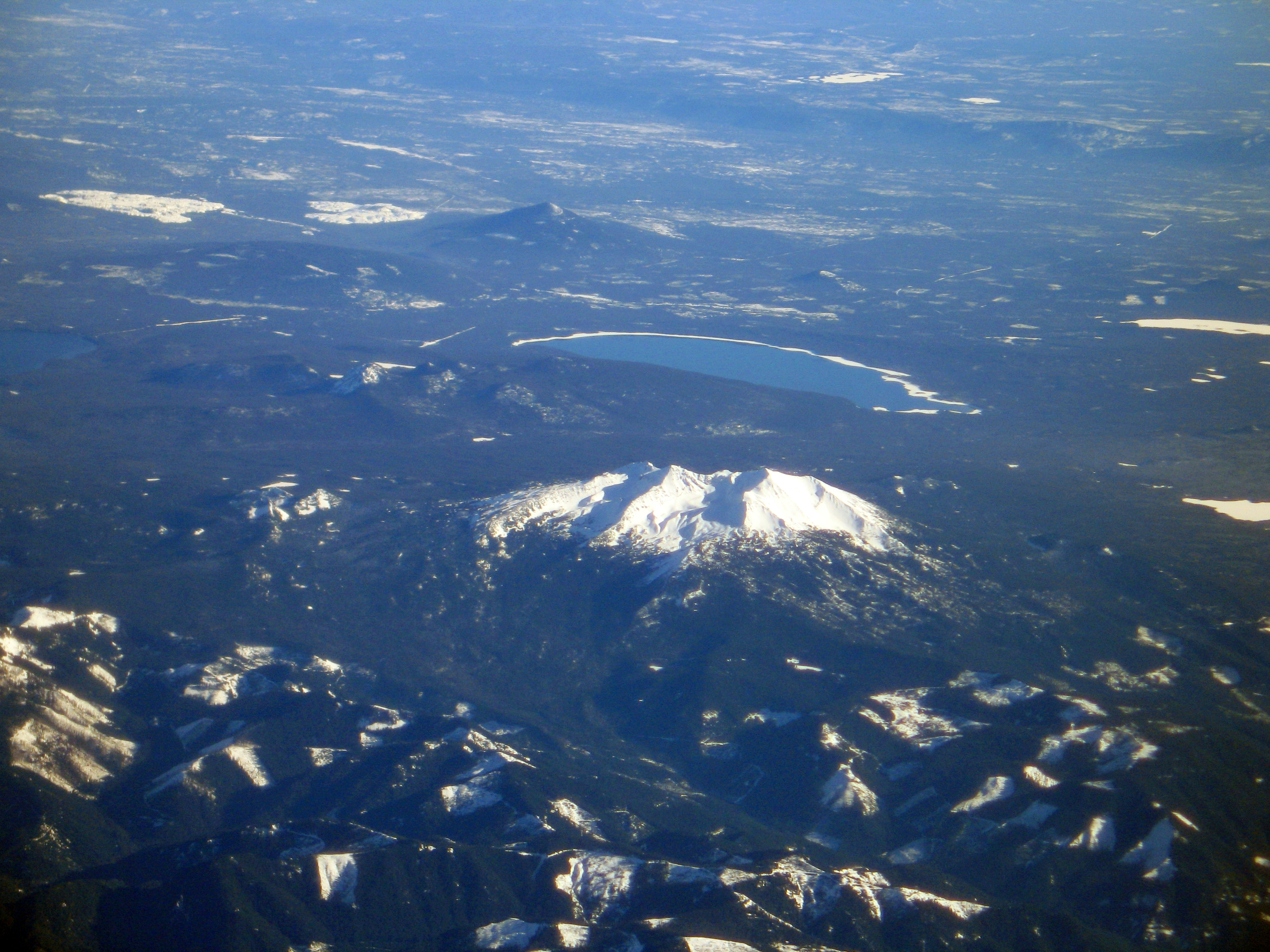 Aerial view looking east to Diamond Peak and Crescent Lake in the Diamond Peak Wilderness in the Oregon Cascade Range.